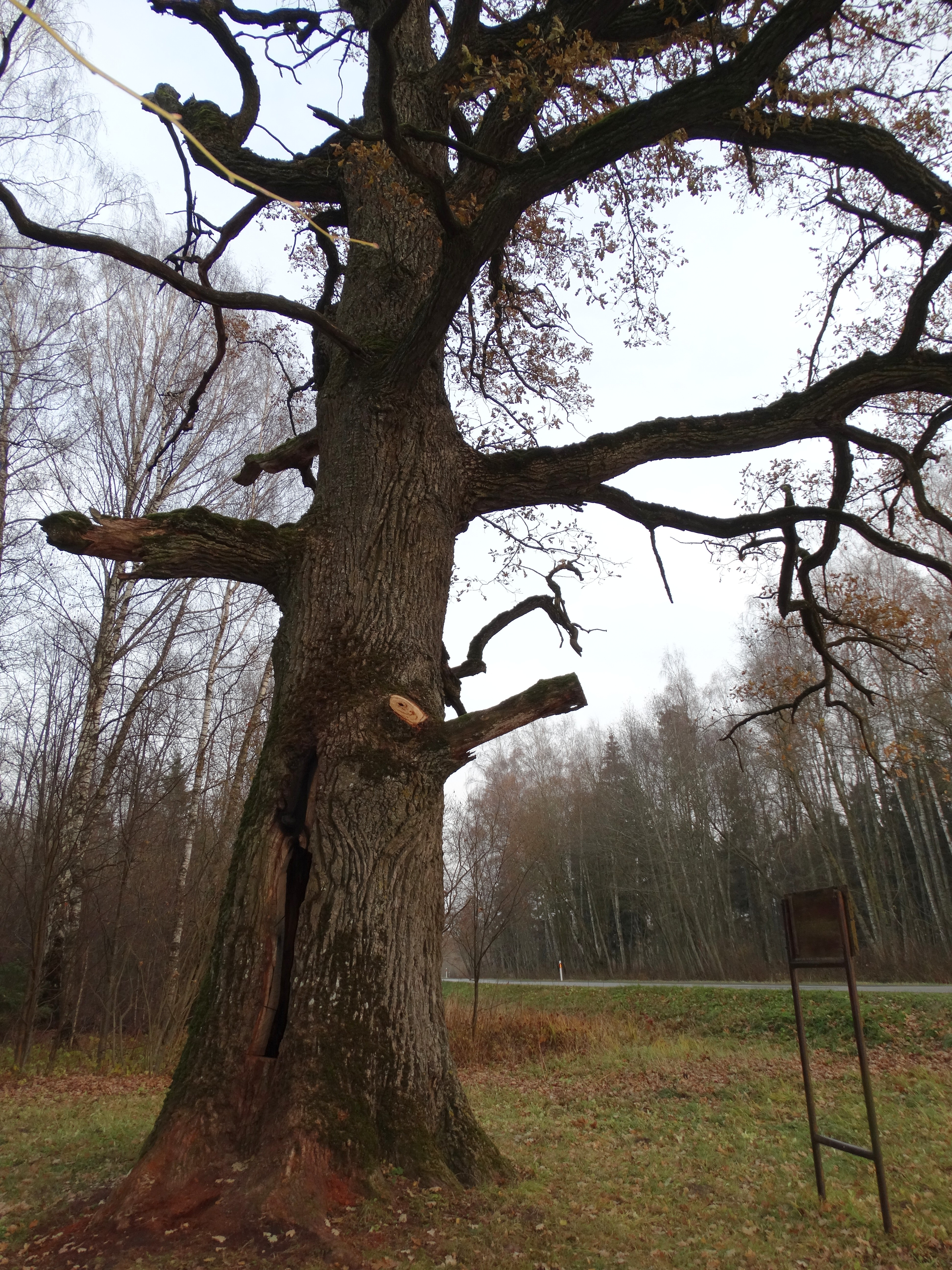 Oak tree in Gedučiai, Pasvalys District, Lithuania